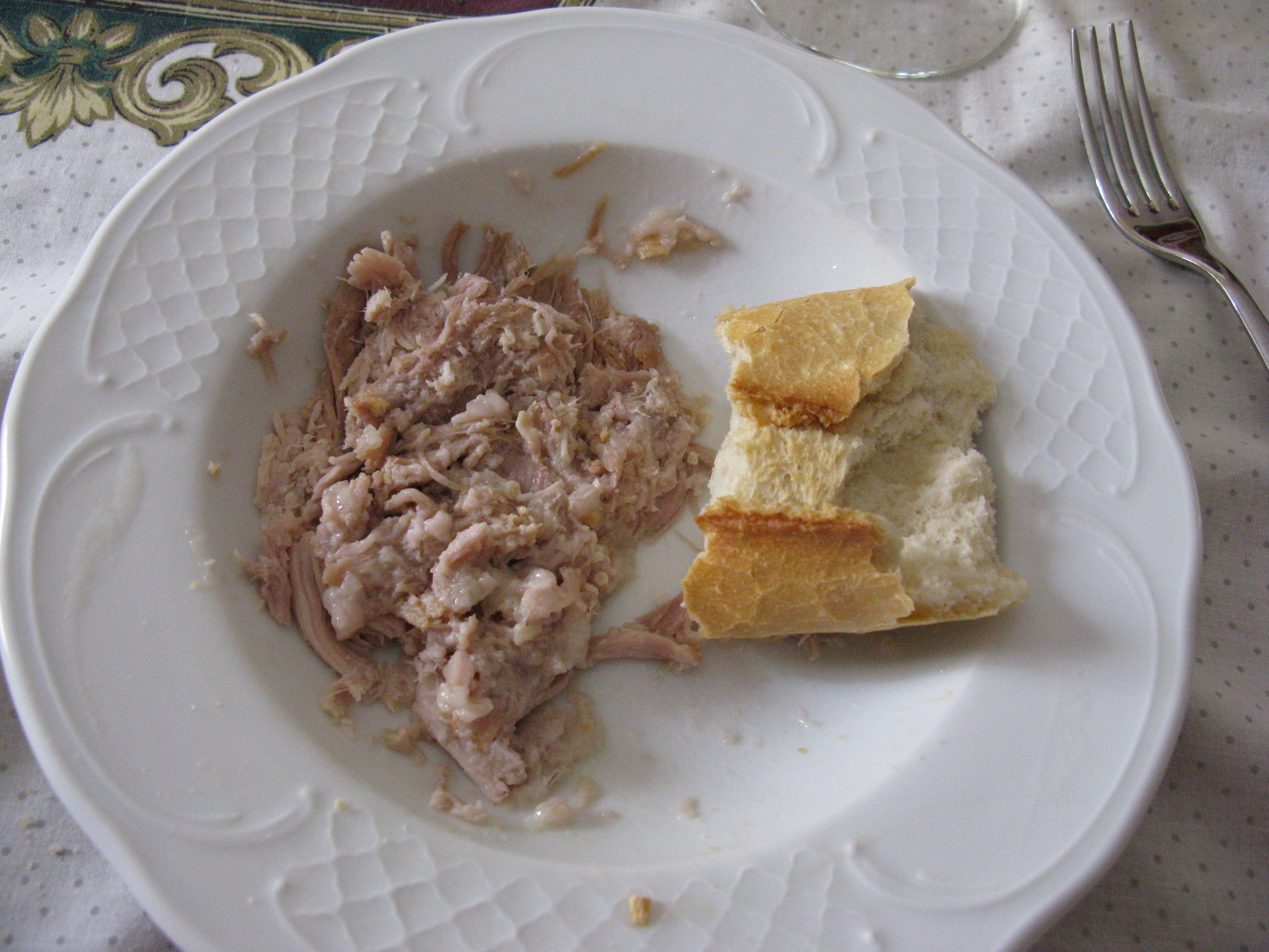 Pringá of Andalusian puchero. Traditional Andalusian dish. Utrera (Seville), Spain.